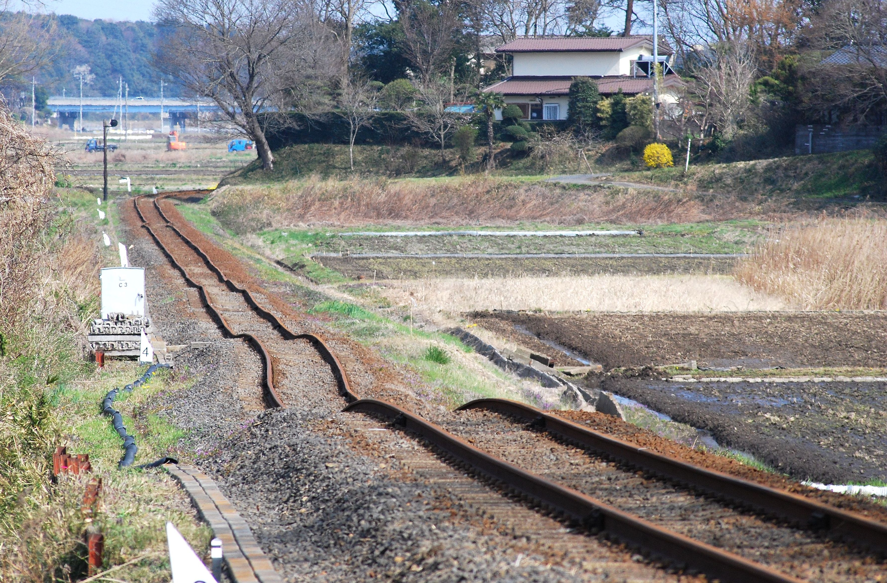 Railway track of Hitachinaka Seaside Railway damaged by 2011 Tōhoku earthquake, Hitachinaka, Ibaraki, Japan.